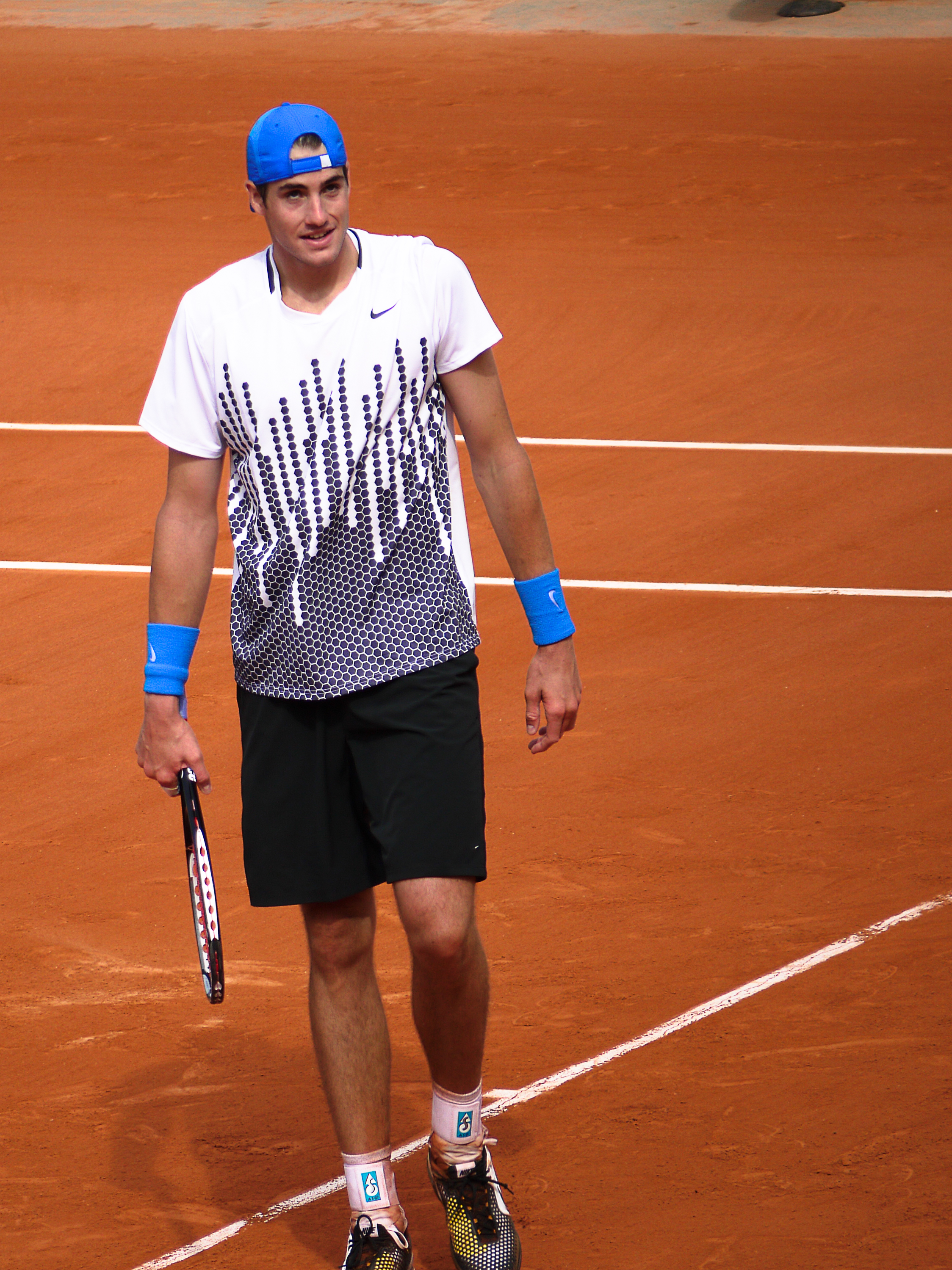 John Isner during the 1st round of the 2011 French Open against Nadal